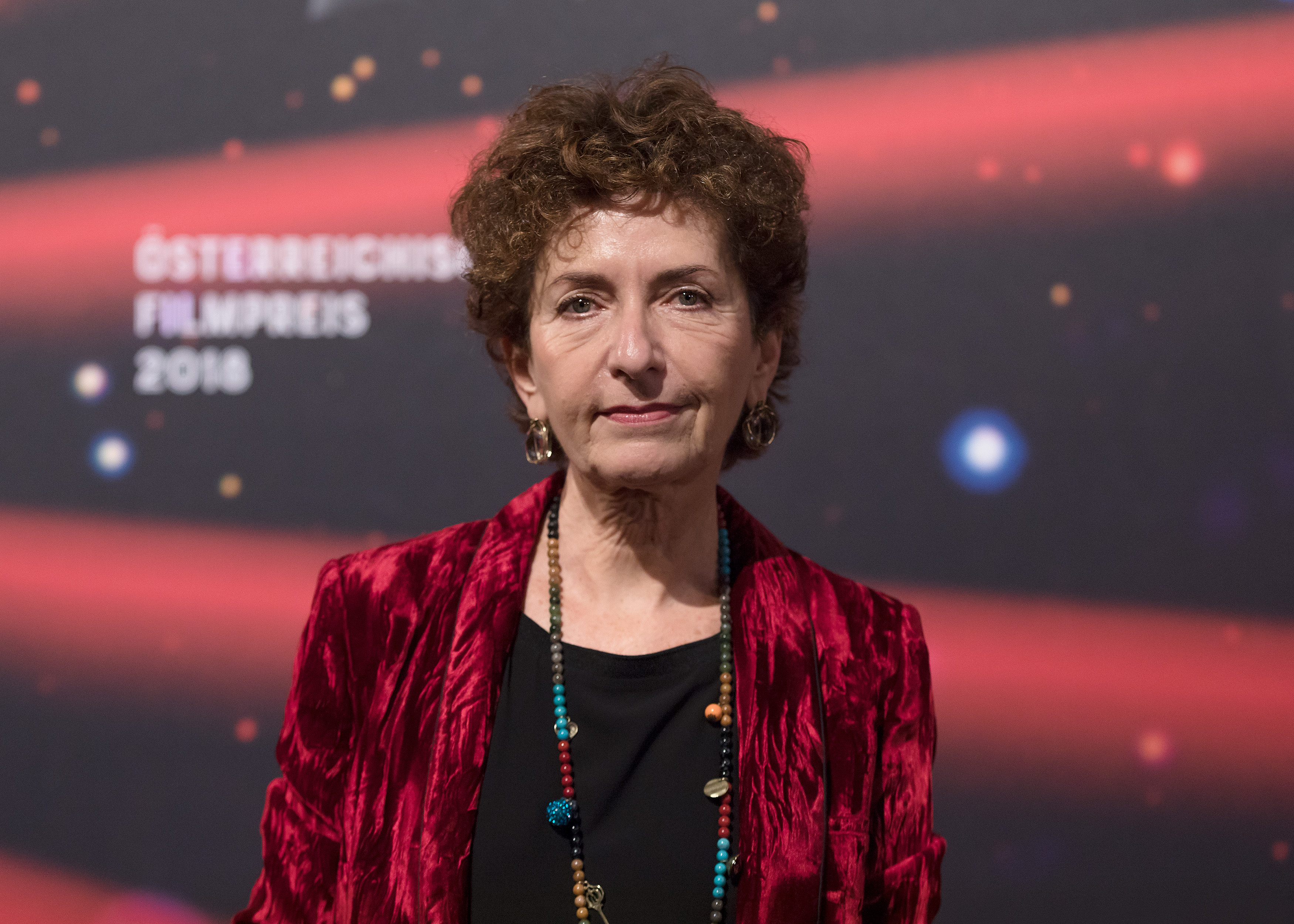 Ruth Beckermann, producer and director of Die Geträumten, at the Austrian Film Awards 2018 (Auditorium Grafenegg at Grafenegg Castle, Lower Austria,Austria).